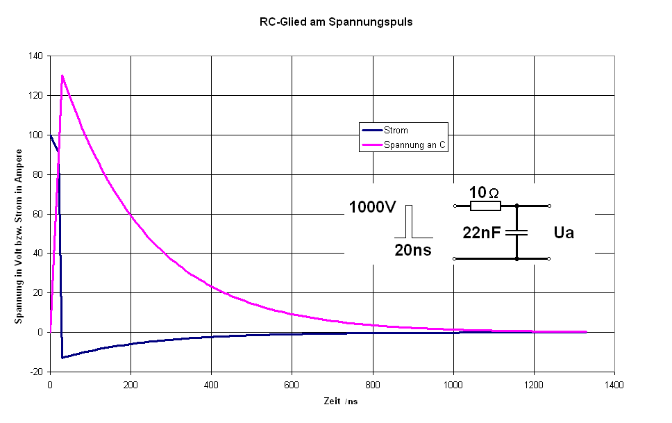 response of a RC nbetwork on an 1kV voltage pulse